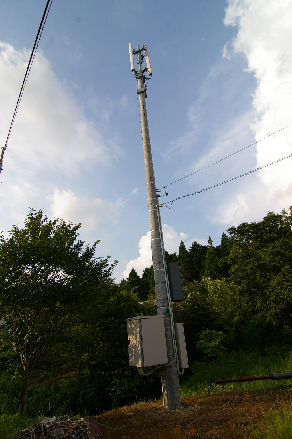 softbank base station, Agi Nakatsugawa, Gifu Pref., Japan